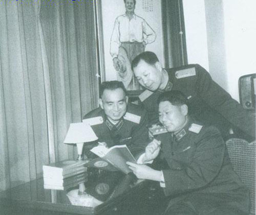 Three famed Senior Generals of Chinese PLA with same last name/family name "Yang": Yang Yong, Yang Chengwu (center), and Yang Dezhi (right) were photographed together in 1960.